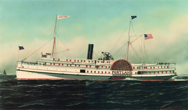 Portland, 1890 coastal steamship, by Antonio Jacobsen.